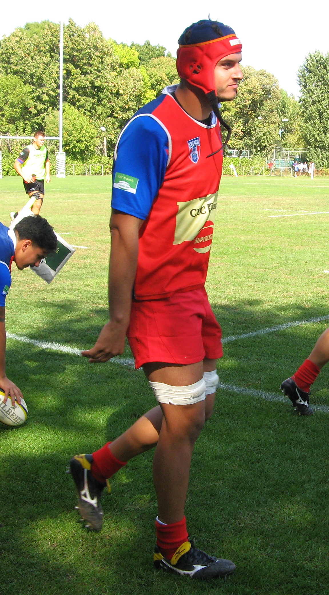 Romanian rugby union football player Marcel Rusu, player of CSA Steaua București rugby club seen training before a match against Timișoara Saracens in Round 3 of Romanian Rugby SuperLiga in September 2018